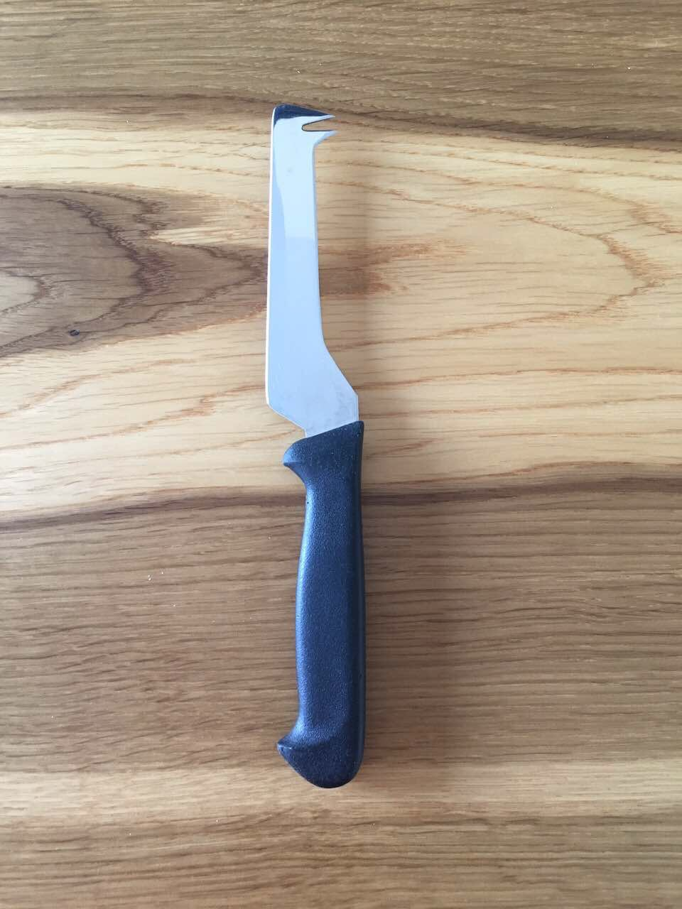 Cheese kinfe